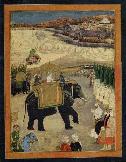 ote cliché RC-A-58972 legend battle elephant Prints and Photographs Department document symbol RESERVE OD-44-FOL part of the Code. Battles and historical subjects from India and Persia folio pagination Folio 46 Prints category descriptor (s) rider, horse, elephant movement army scene soldier